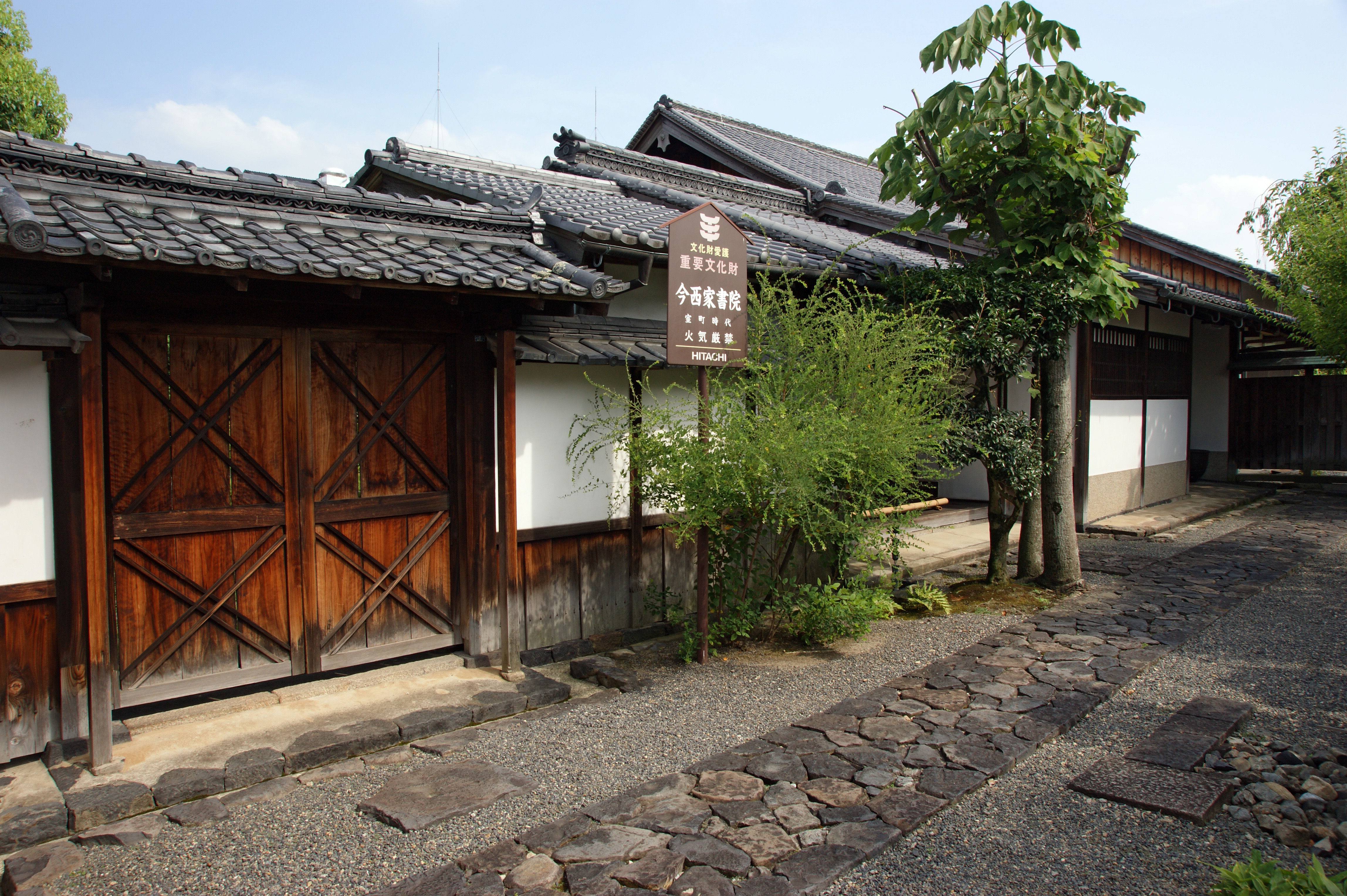 Imanishi-ke_Shoin in Nara, Nara prefecture, Japan